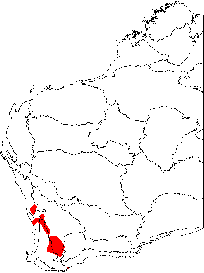 This is a map of Western Australia, showing the distribution of Banksia nobilis (Golden Dryandra, formerly Dryandra nobilis)superimposed on a background of the IBRA 6.1 biogeographic regions.